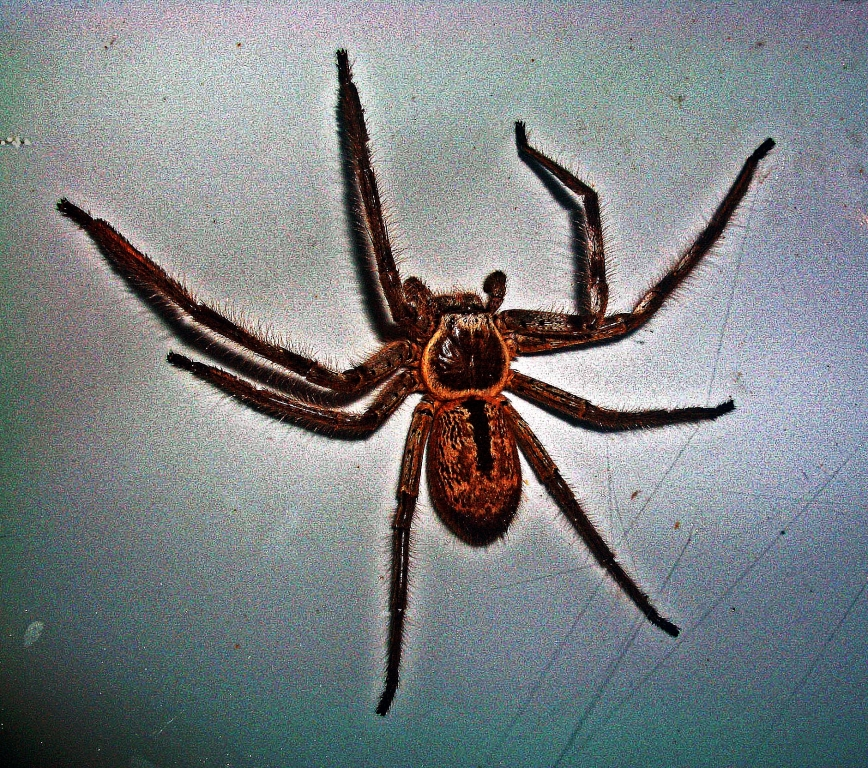 I took this photo in my home near Cooktown, Queensland, Australia in 2009